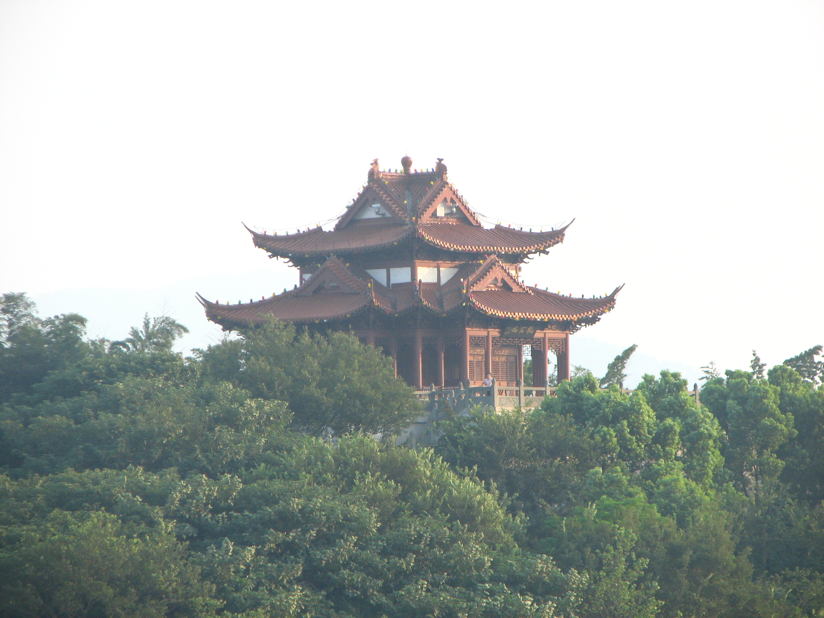 Main structure in Xiaoshan Park, Ningbo, China